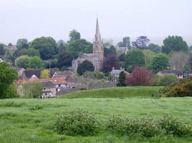 Part Castle Cary, Somerset, England, seen from the east. In the foreground are the motte and bailey of the former castle. In the middle distance is All Saints' parish church.